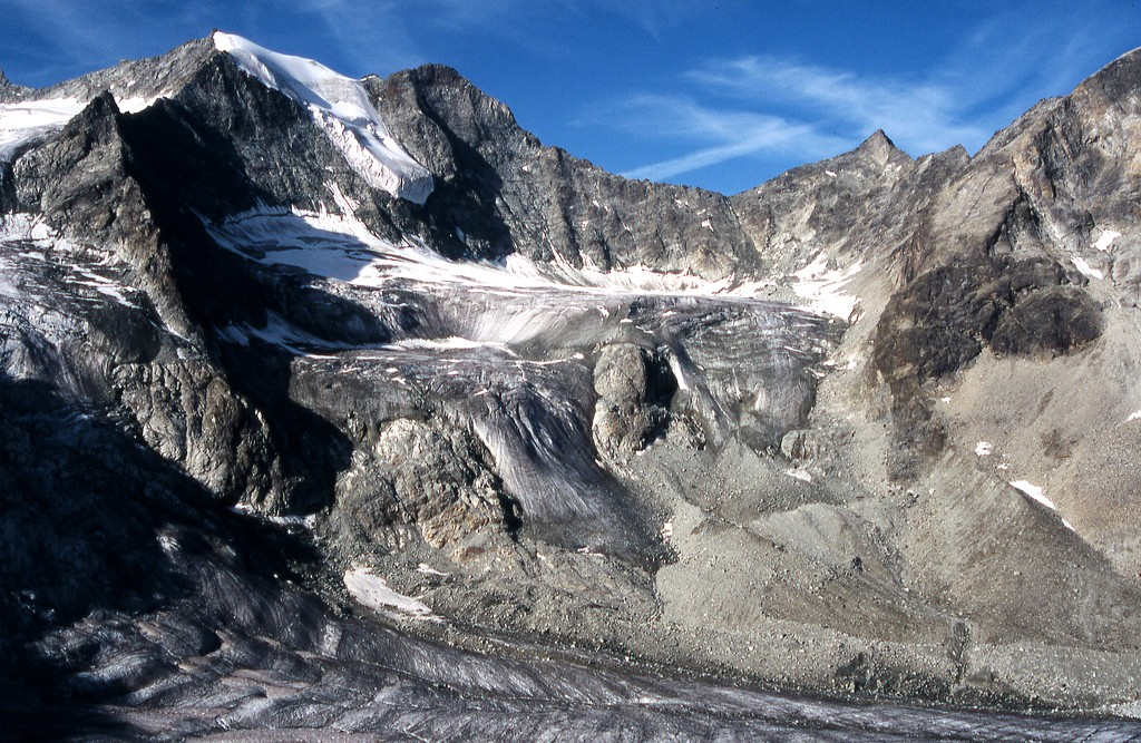 Pointes de Mourti above glacier de Moiry